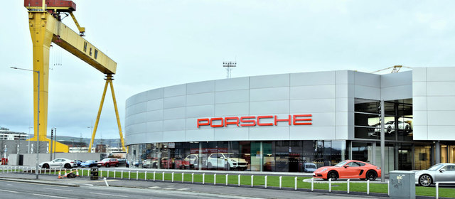 Porsche centre titanic quarter belfast